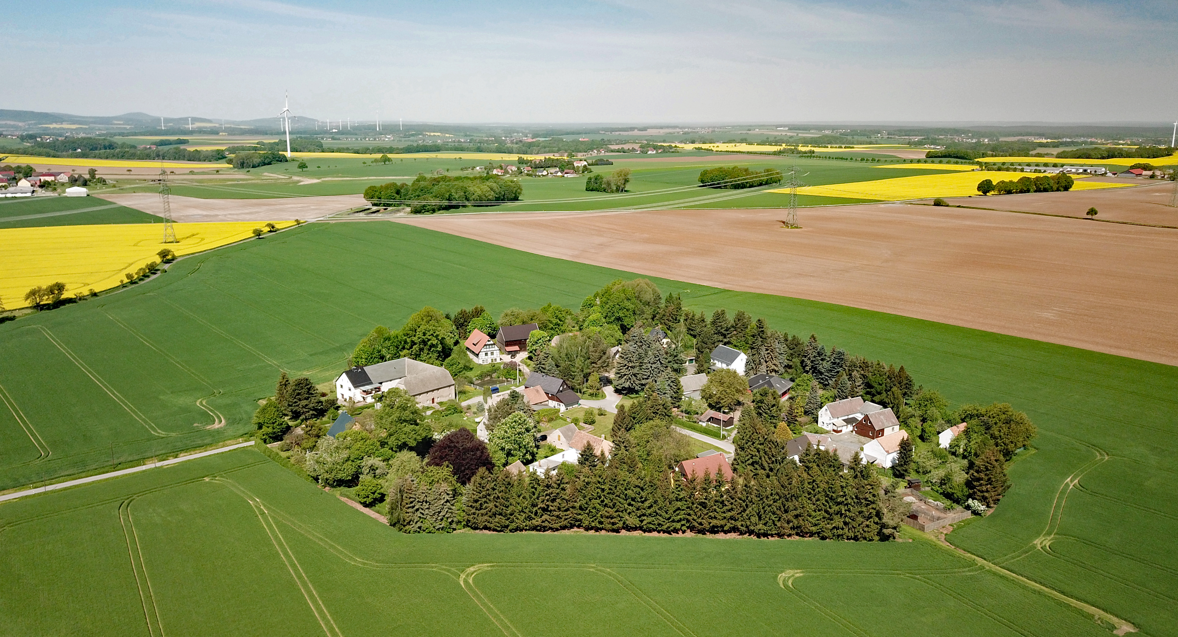 Neraditz (Burkau, Saxony, Germany) Hornjoserbsce: Powětrowy wobraz Njeradec